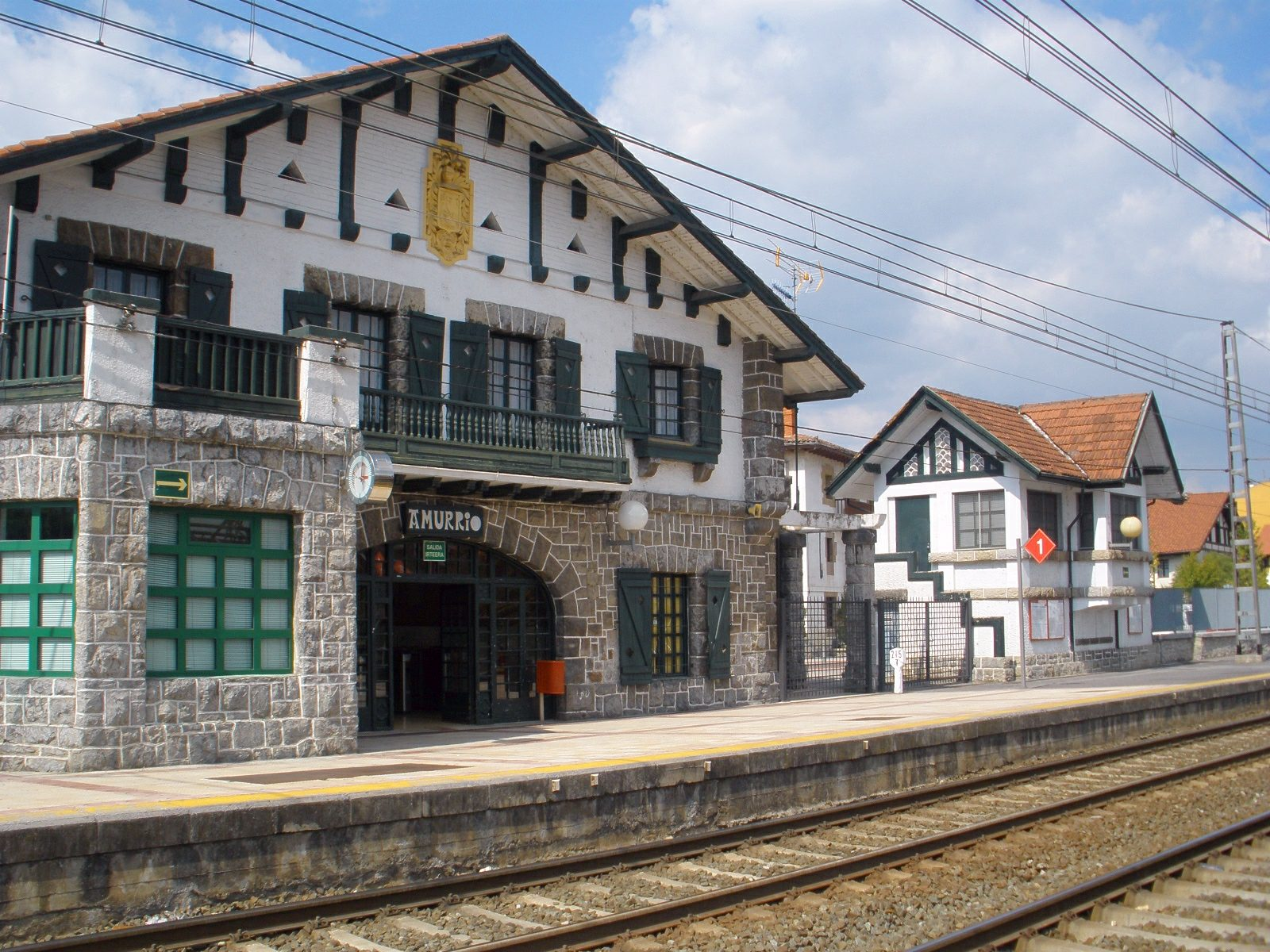 Estación de ferrocarril en Amurrio (Álava).